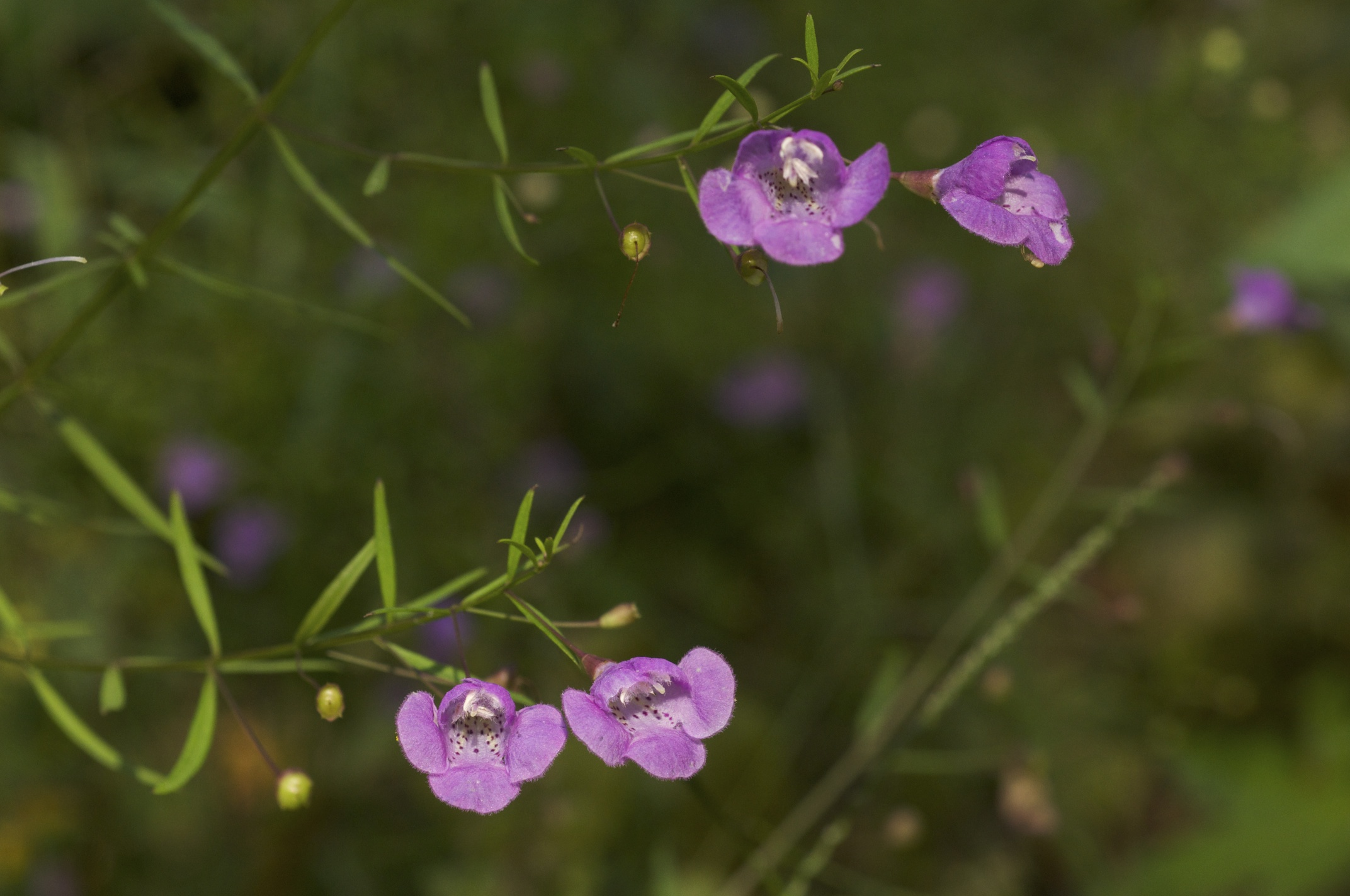 Species from Eastern North America Common name: Slenderleaf false foxglove Photographed in Boyle Park, Little Rock, Pulaski County, Arkansas